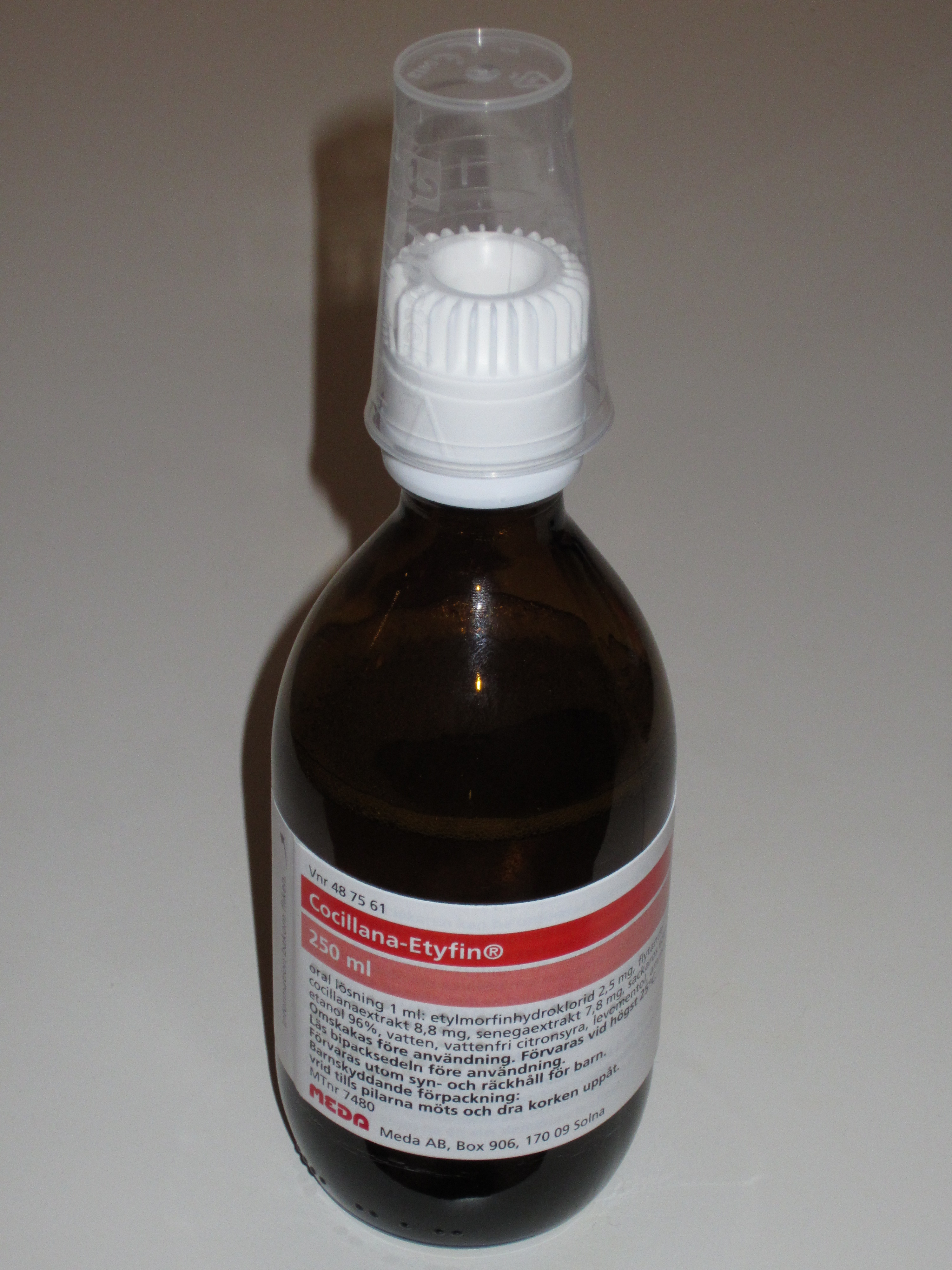 A bottle of cough medicine "Cocillana-Etyfin"